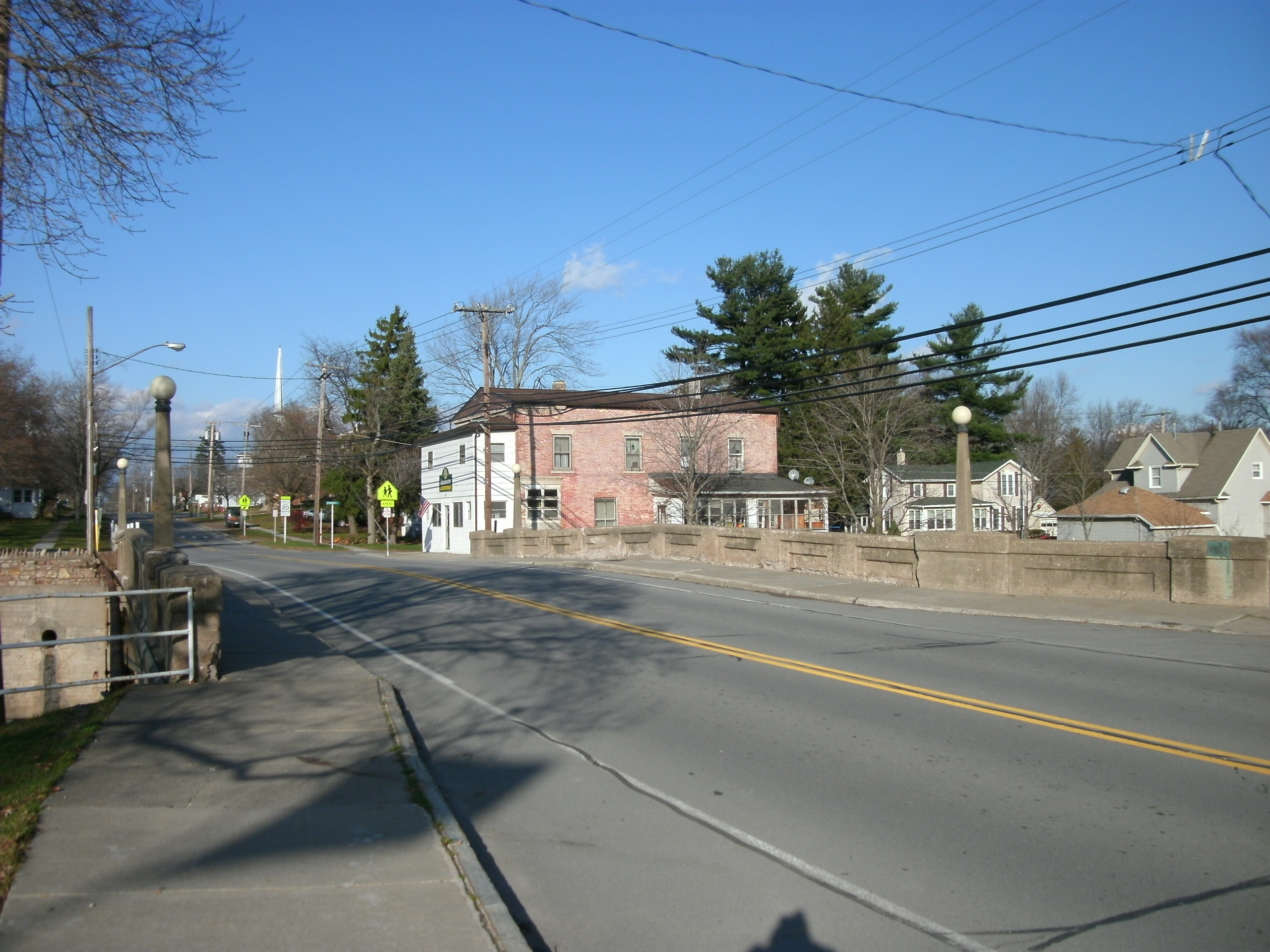 Looking northbound along New York State Route 63 at the bridge over Johnson Creek in the village of Lyndonville.